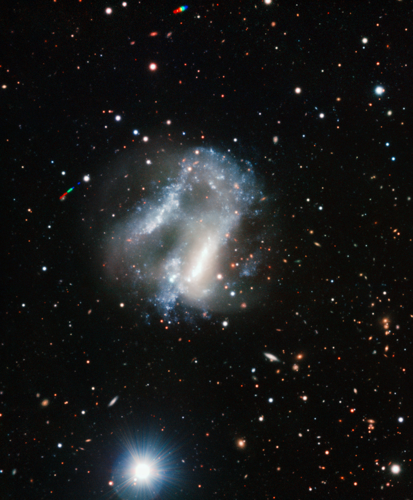 Colour composite image of Arp 261 using the FORS2 instrument on the ESO Very Large Telescope (VLT). It was created from images through blue, green, red and infrared filters and the total exposure time was 45 minutes.